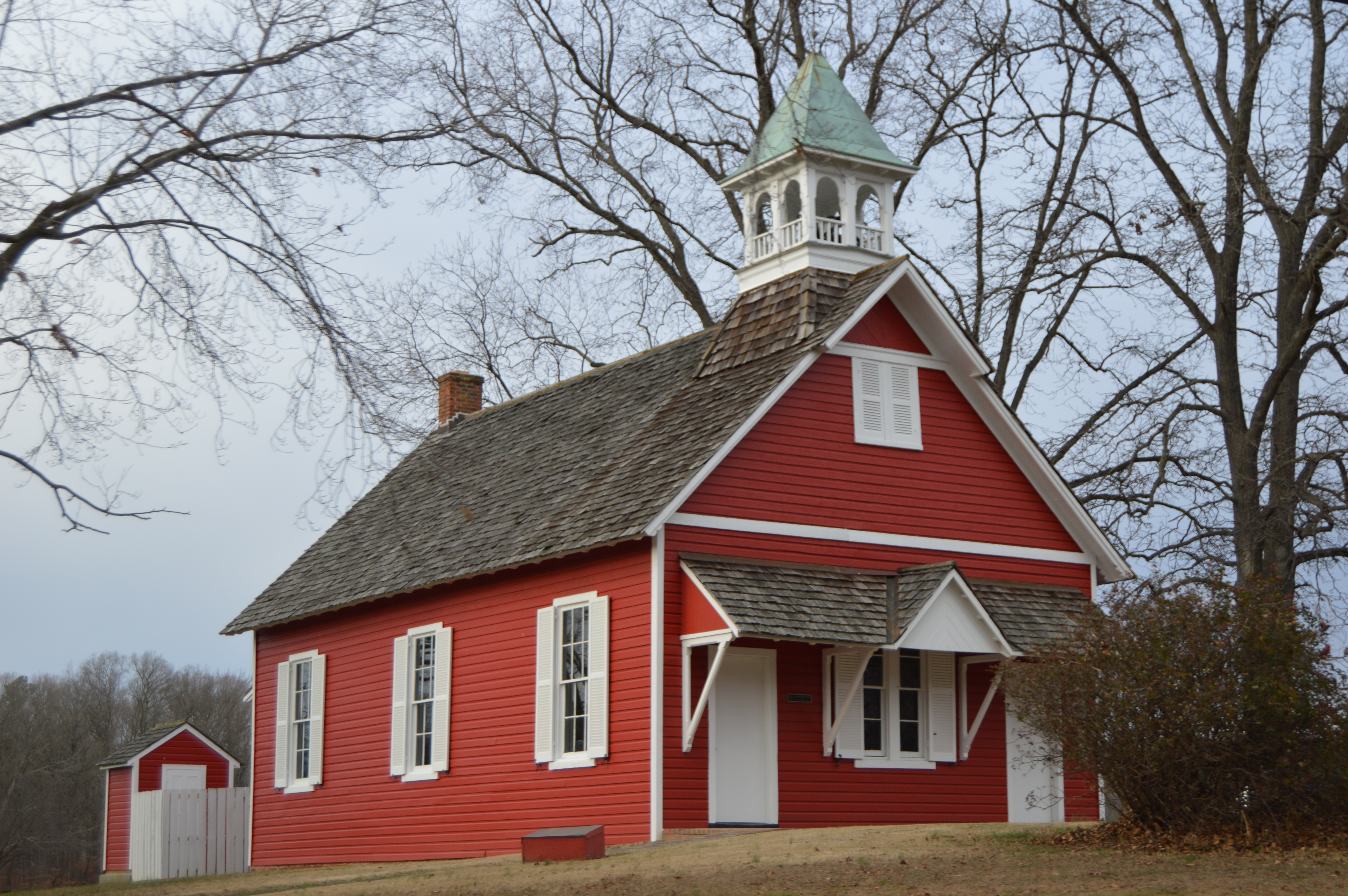 Front and southwestern side of the Little Red Schoolhouse, located on Longwoods Road (Maryland Route 662) west of Cordova in Talbot County, Maryland, United States. Built in 1885, it is now a museum.